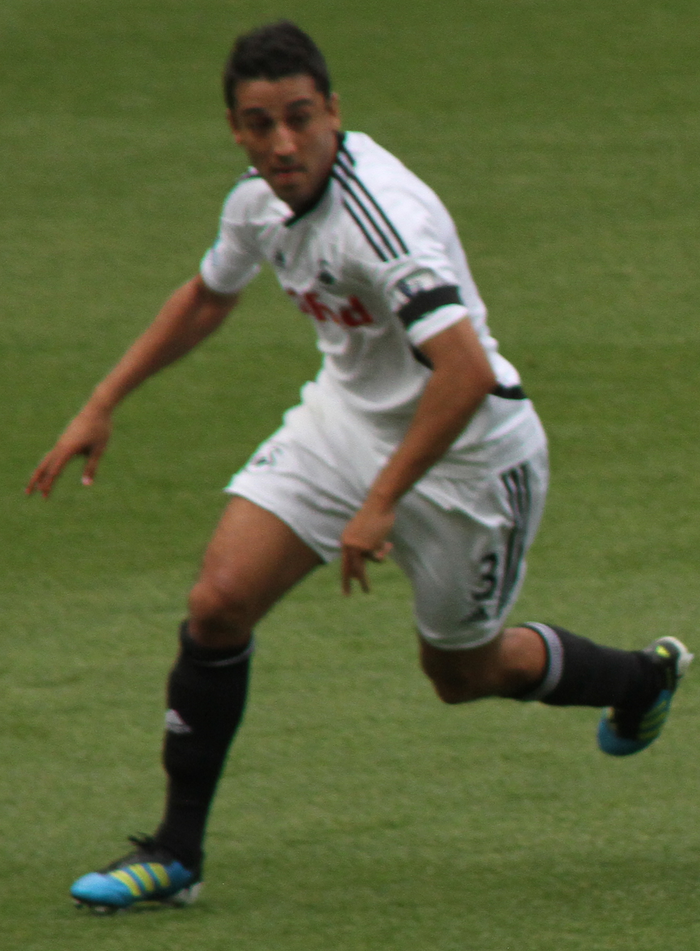 Andrei Arshavin of Arsenal defended by Neil Taylor (left) and Ashley Williams. Emmanuel Frimpong in the background.